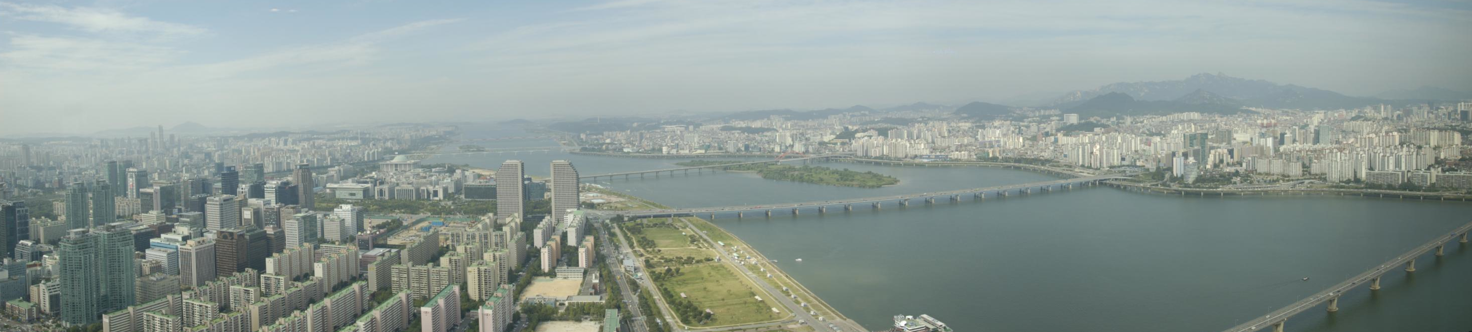 Panoramic View from 63 Building in Seoul